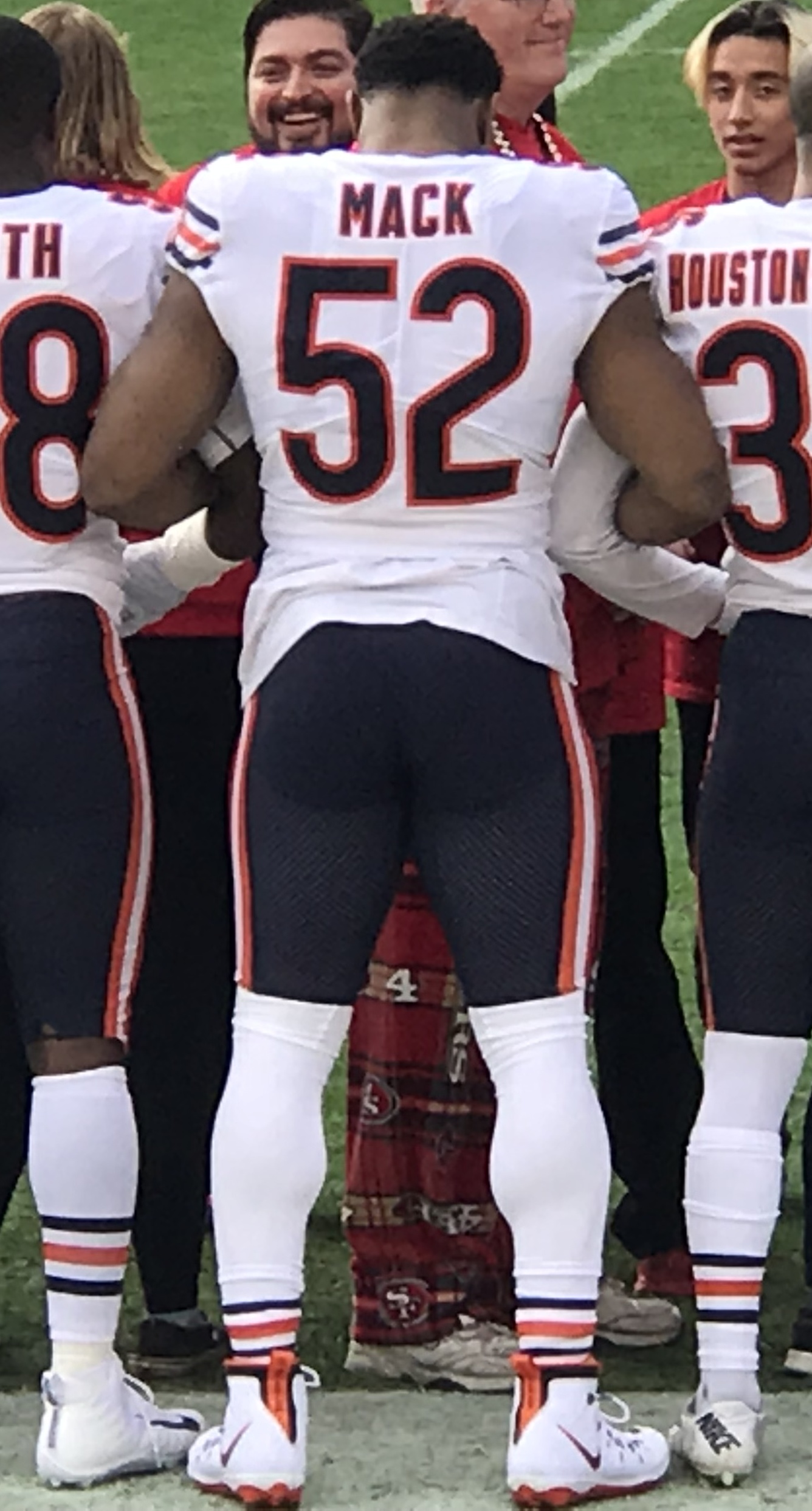 Bears vs 49ers 2018 Image 2